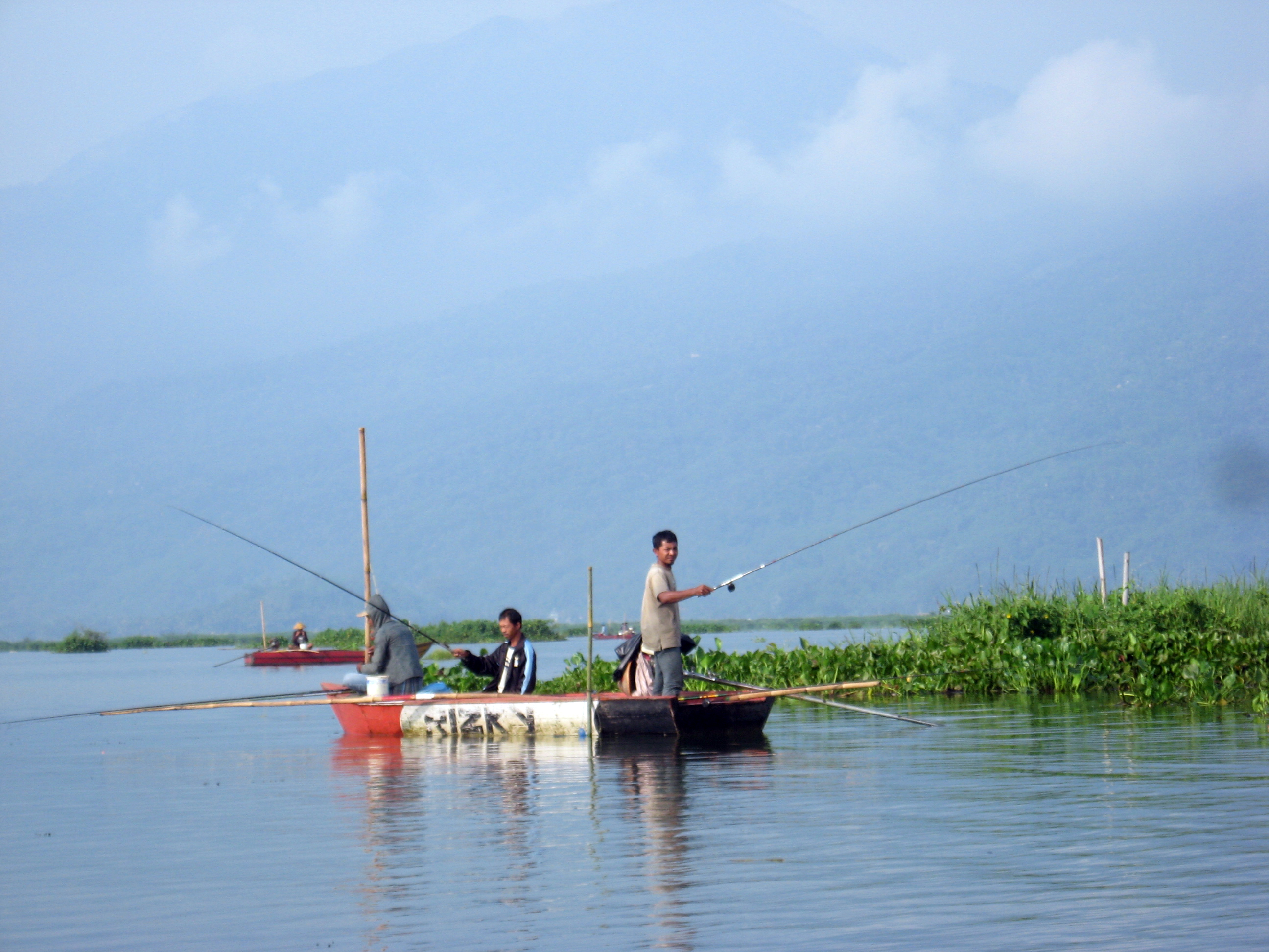 Fishermen at Rawa Pening, Central Java, Indonesia.